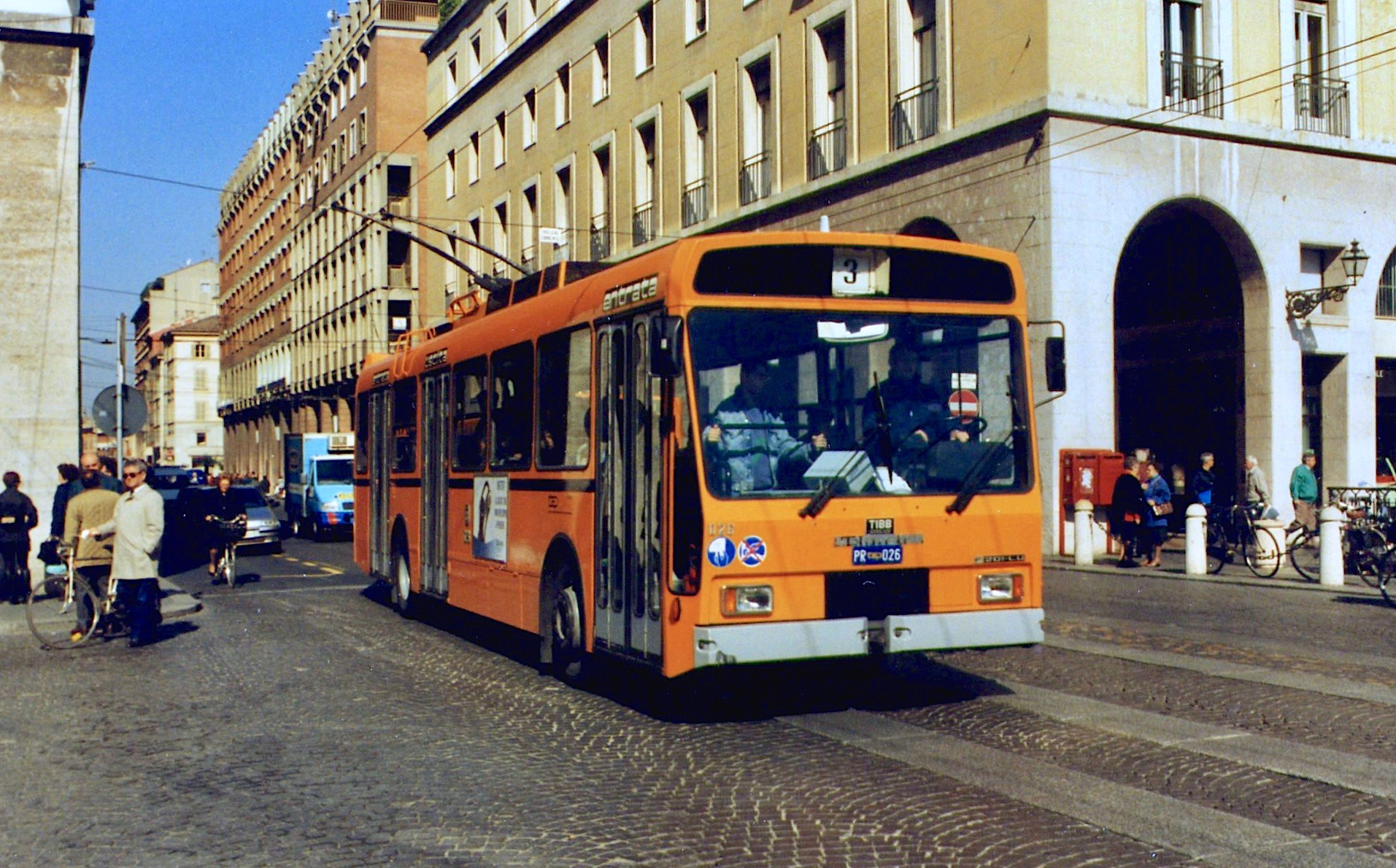 Parma trolleybus 026 (built in 1981 by Menarini) eastbound on route 3 at Piazza Garibaldi